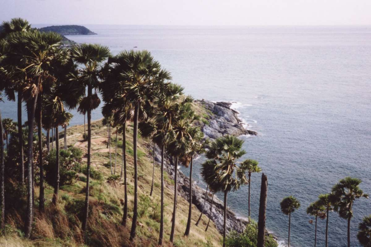 Promthep Cape, Phuket. Popular spot for sunset viewing, crowded every evening especially by Thai visitors of Phuket. Phot taken by User:Ahoerstemeier on April 12 2001.